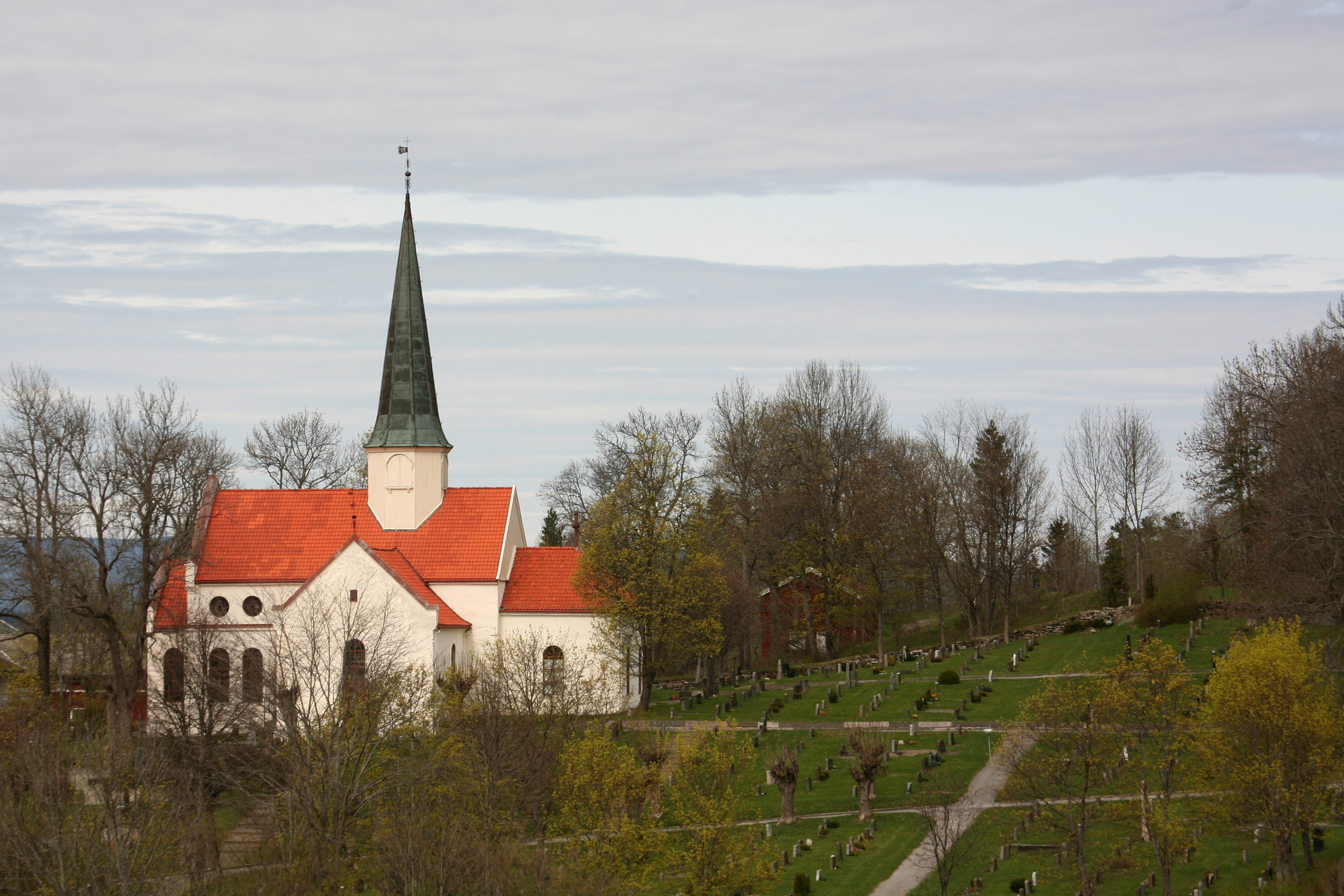 Picture of Heggen Church (Buskerud - Norway)